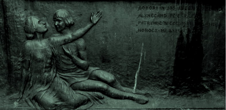 Cătălin and Cătălina from the poem Luceafărul (quoted in the stanza to the right), 1929 relief featured at the base of Mihai Eminescu statue, Iași.